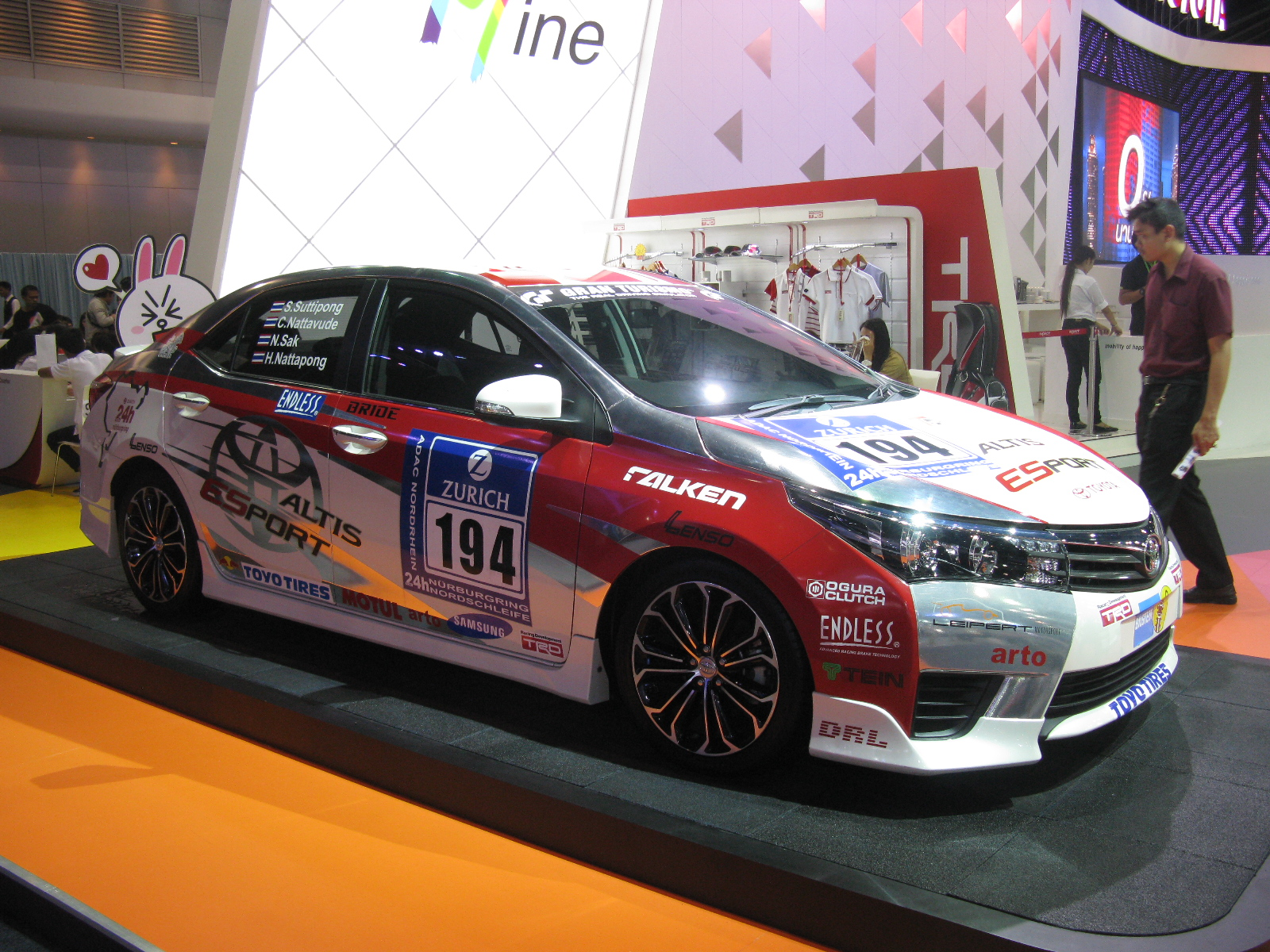 Toyota Corolla Altis Touring Car